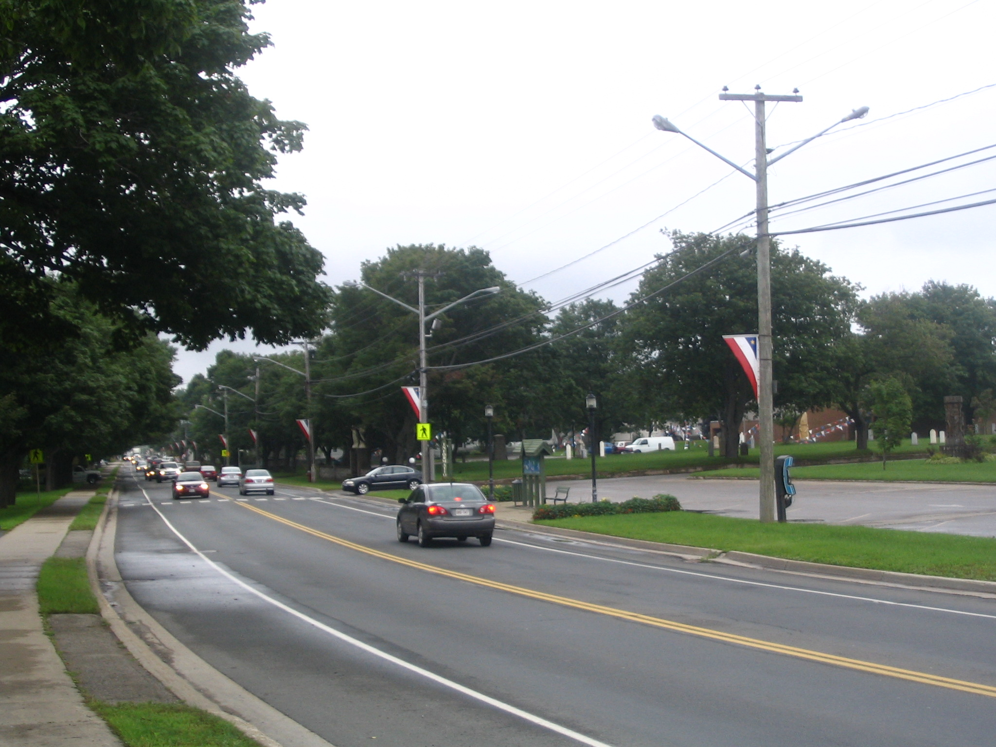 A view of the Saint-Pierre boulevard in Caraquet, New Brunswick, Canada.